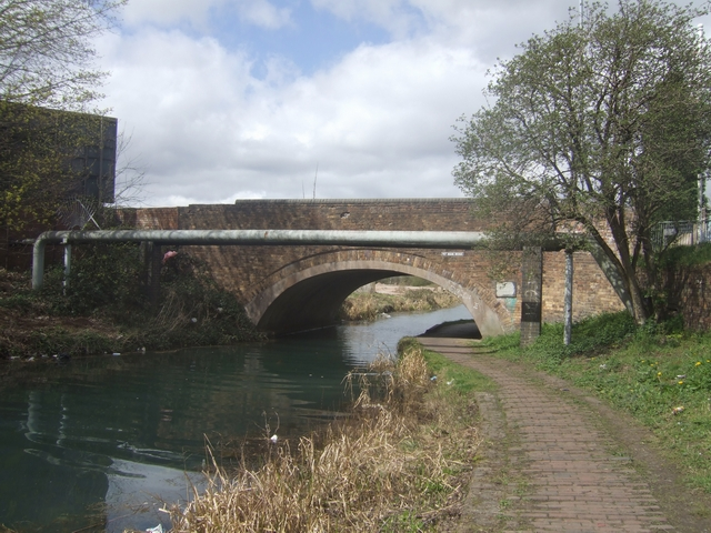 Pot House Bridge - Bradley Arm Canal A remnant of James Brindley's Old Main Line from Wolverhampton to Birmingham. This section of the Wednesbury Oak Loop declined following the opening of Thomas Telford's New Main Line through Coseley Tunnel in 1837. The canal is infilled beyond the British Waterways workshops at Bradley.